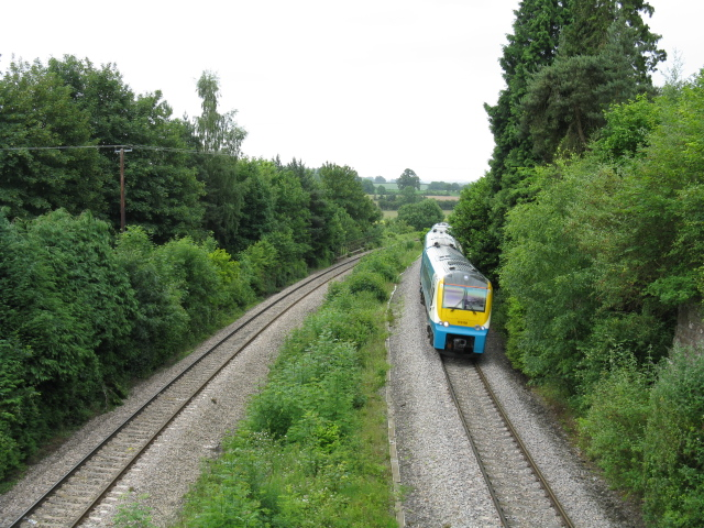 Northbound Train Passing Dinmore The train is passing the site of the station, closed to passengers in 1958 as part of the general reduction in services post-war. Unusually, Dinmore station's platforms were separated both laterally and vertically, a legacy of the different levels used in building two separate tunnels under Dinmore Hill in 1852 and 1893. The train is on the later line.